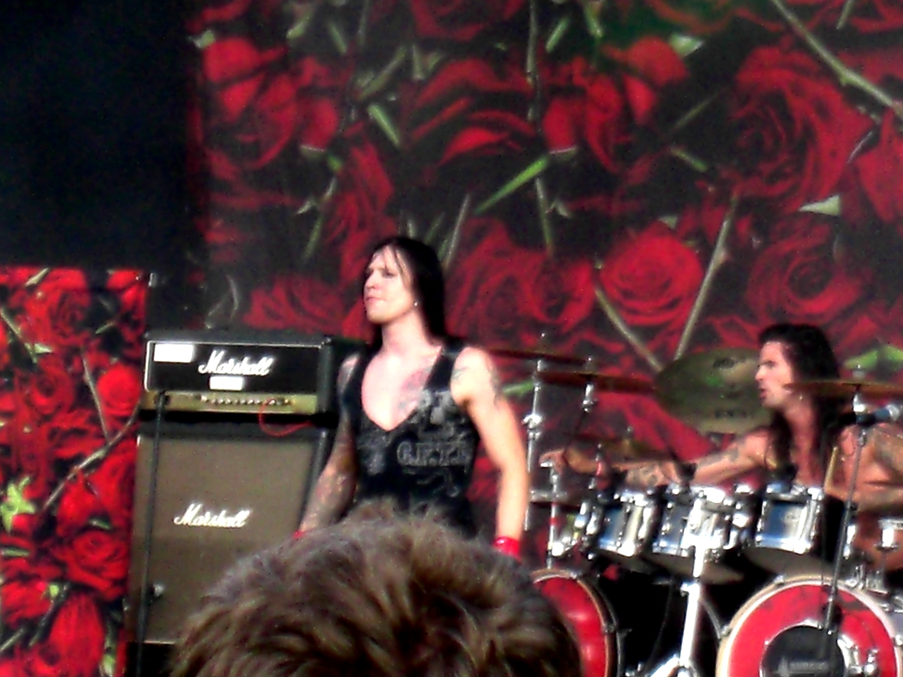 Hardcore Superstar, Metaltown Göteborg 2008